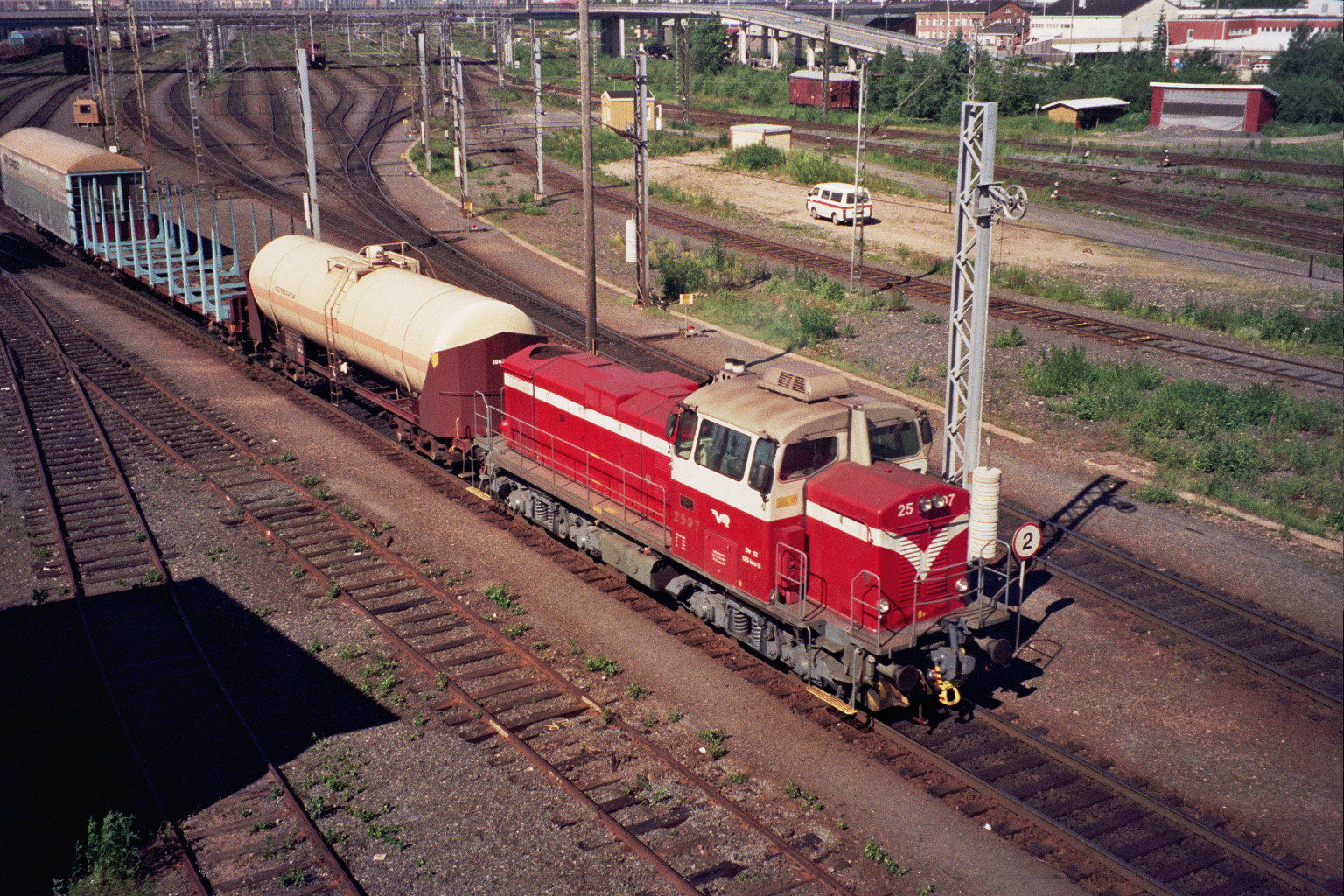 A diesel locomotive, VR class Dv12, shunting railroad cars in the VR freight yard in Oulu, Finland.